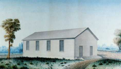 Color rendering of the first building of the First Presbyterian Church in the "Town of Buffalo, NY built and used by the church between 1824 and 1827. Building was sold and moved to another location and destroyed by a fire in 1882. Original drawing dates before 1877 and is in possession of the the First Presbyterian Church, Buffalo, NY.